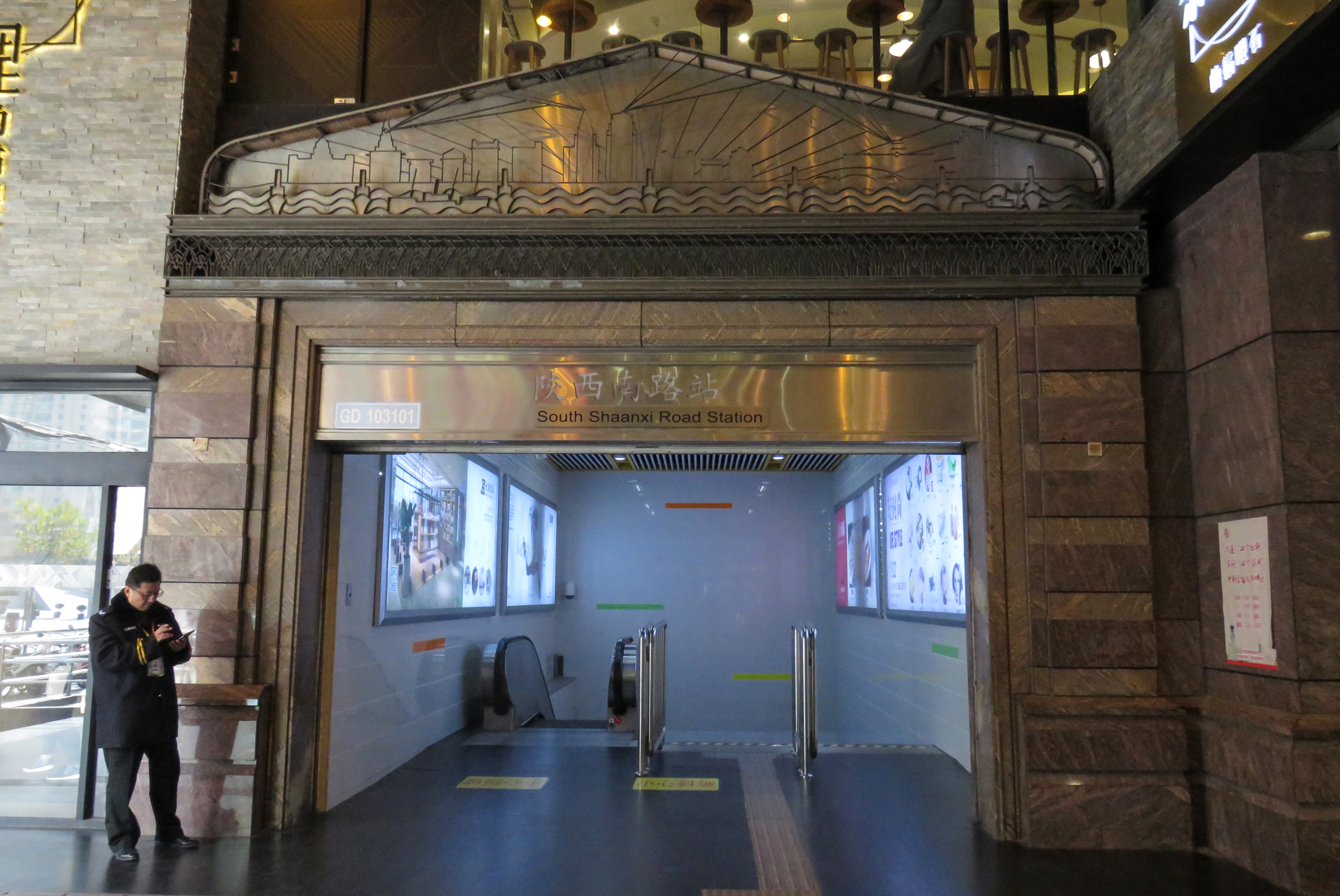 Adjacent to the west entrance of Printemps.